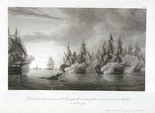 Battle of Cape Finisterre (October 1747). "Battle of the ship Intrepid against several British ships"